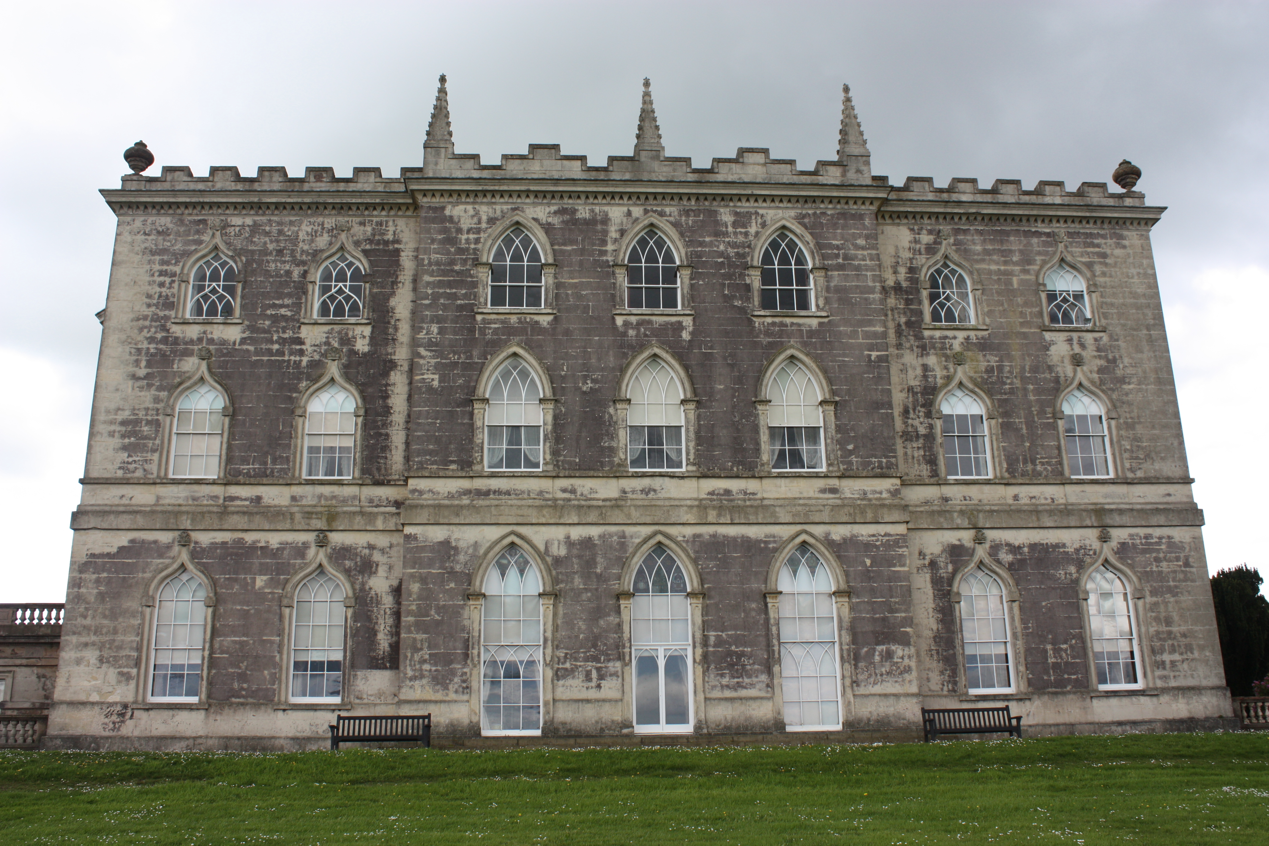 House, Castle Ward, Strangford, County Down, Northern Ireland, June 2011